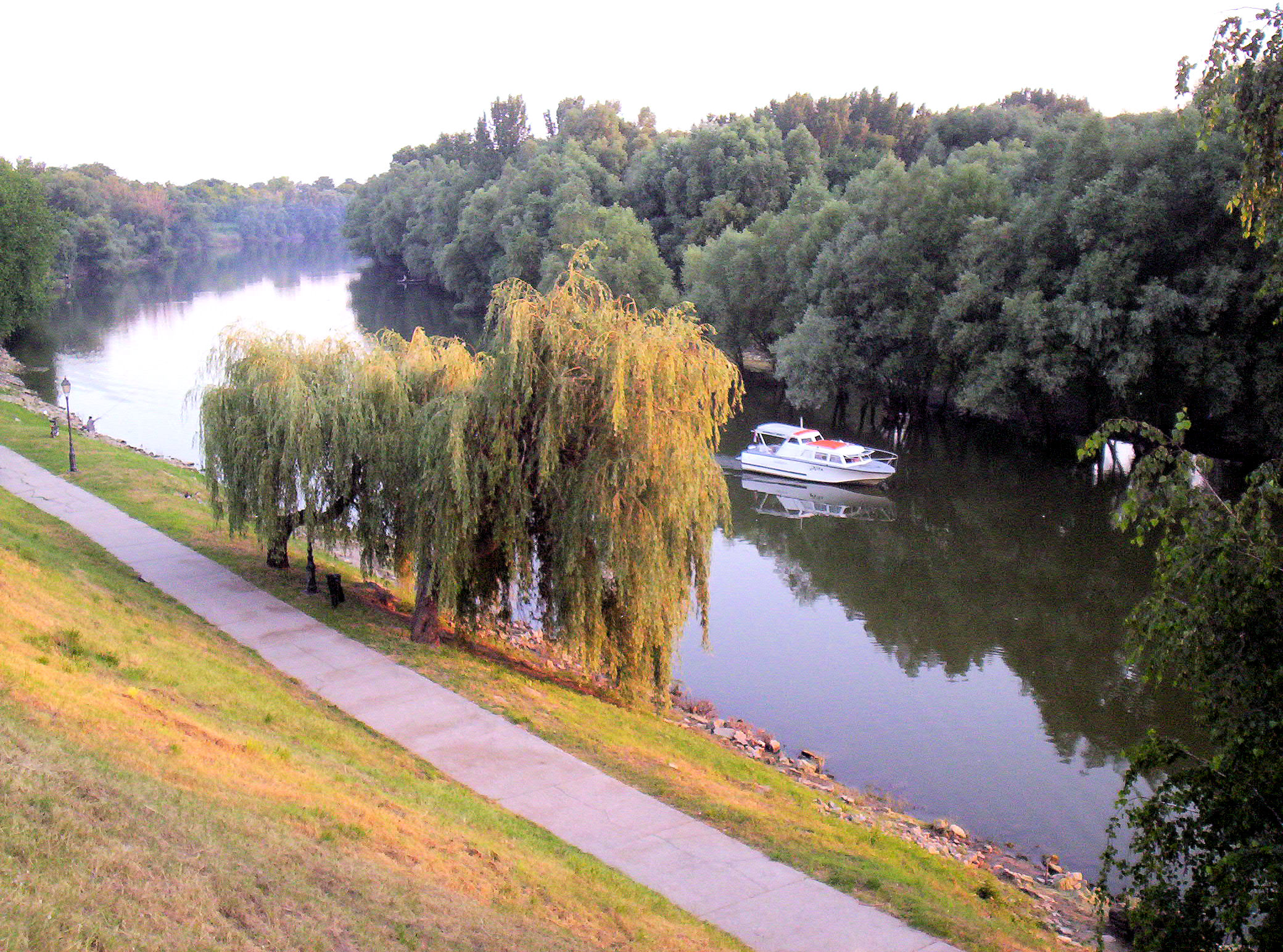 A Sugovica (Kamarás-Duna) Baján – photo taken by uploader User:Csanády in 2006.